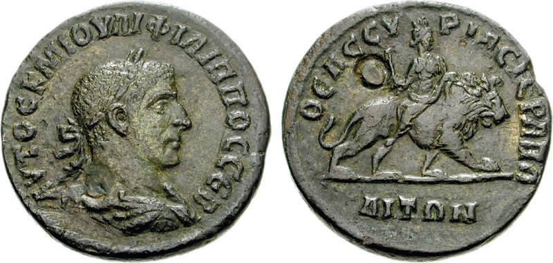 SYRIA, Cyrrhestica. Hierapolis. Philip I. 244-249 AD. Æ 29mm (15.97 g, 6h). Laureate, draped, and cuirassed bust right, seen from behind / Atargatis, head right and holding sceptre, leaning left on back of lion advancing right; c/m: ON (?) within circular incuse. For coin type: Butcher 64a; SNG Copenhagen 63; for c/m: cf. Howgego 681. VF, green patina, lightly smoothed.